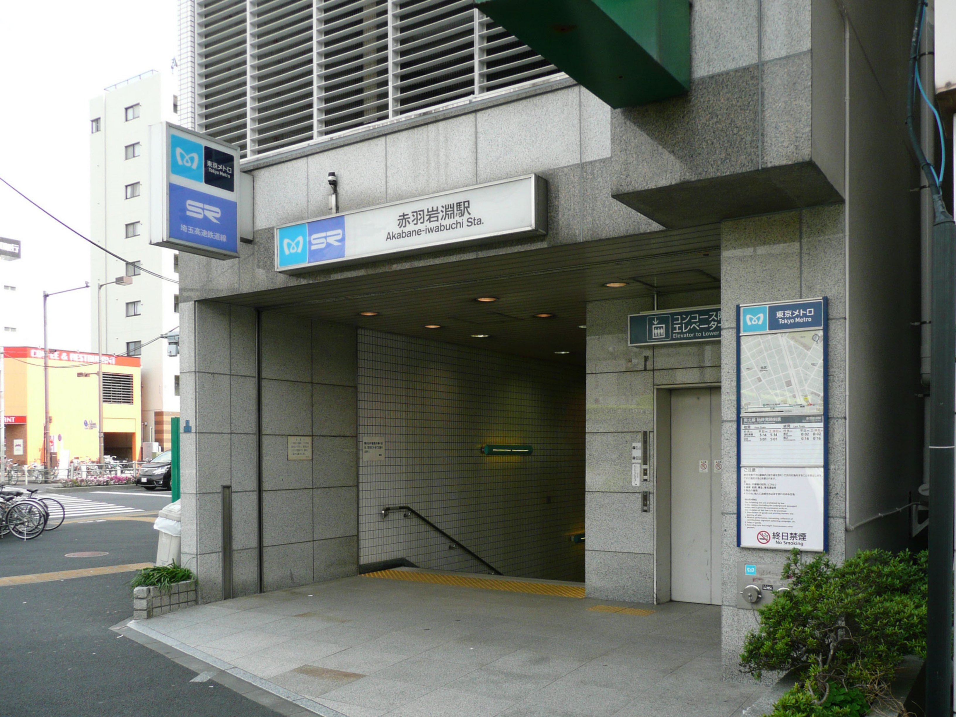 Exit No. 1 to Akabane-Iwabuchi Station